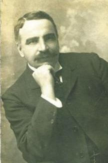 1905 Charles Peter Allen Liberal MP Stroud 1900-18